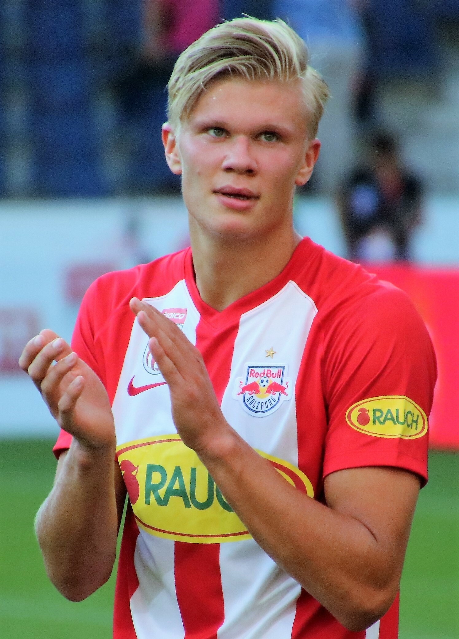 League match 2nd round Austrian Bundesliga